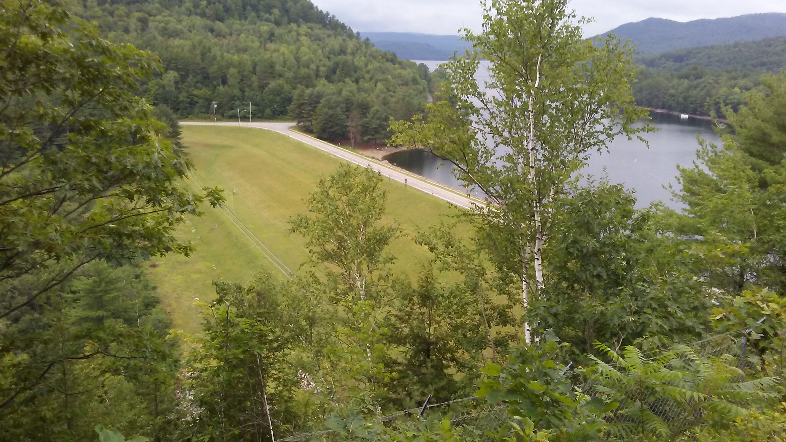 Conklingville Dam in August 2016